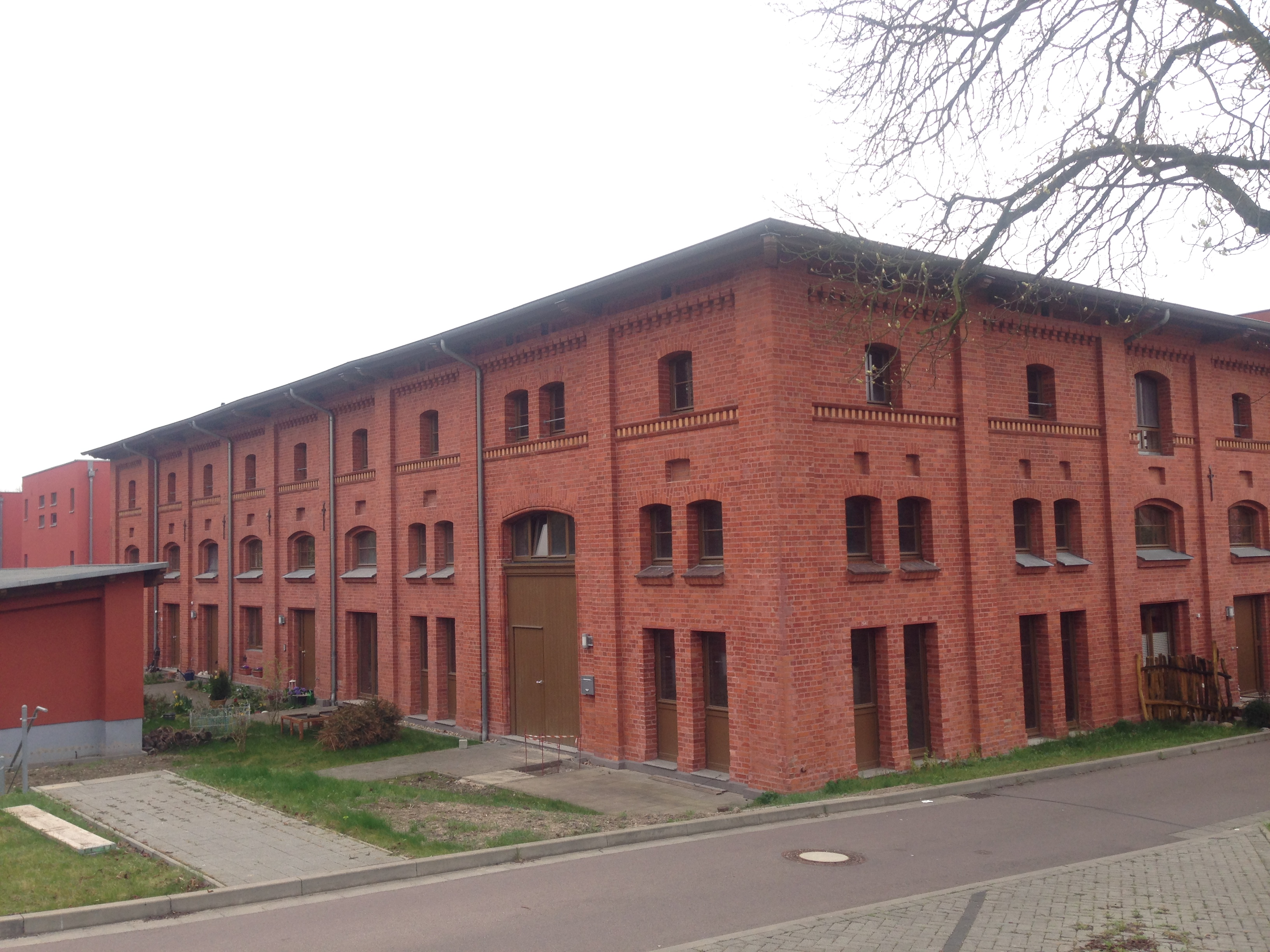 Gestüt Kreuzvorwerk, Nordflügel